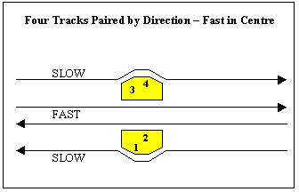 Station - Four Tracks Paired by Direction - Fast in Centre